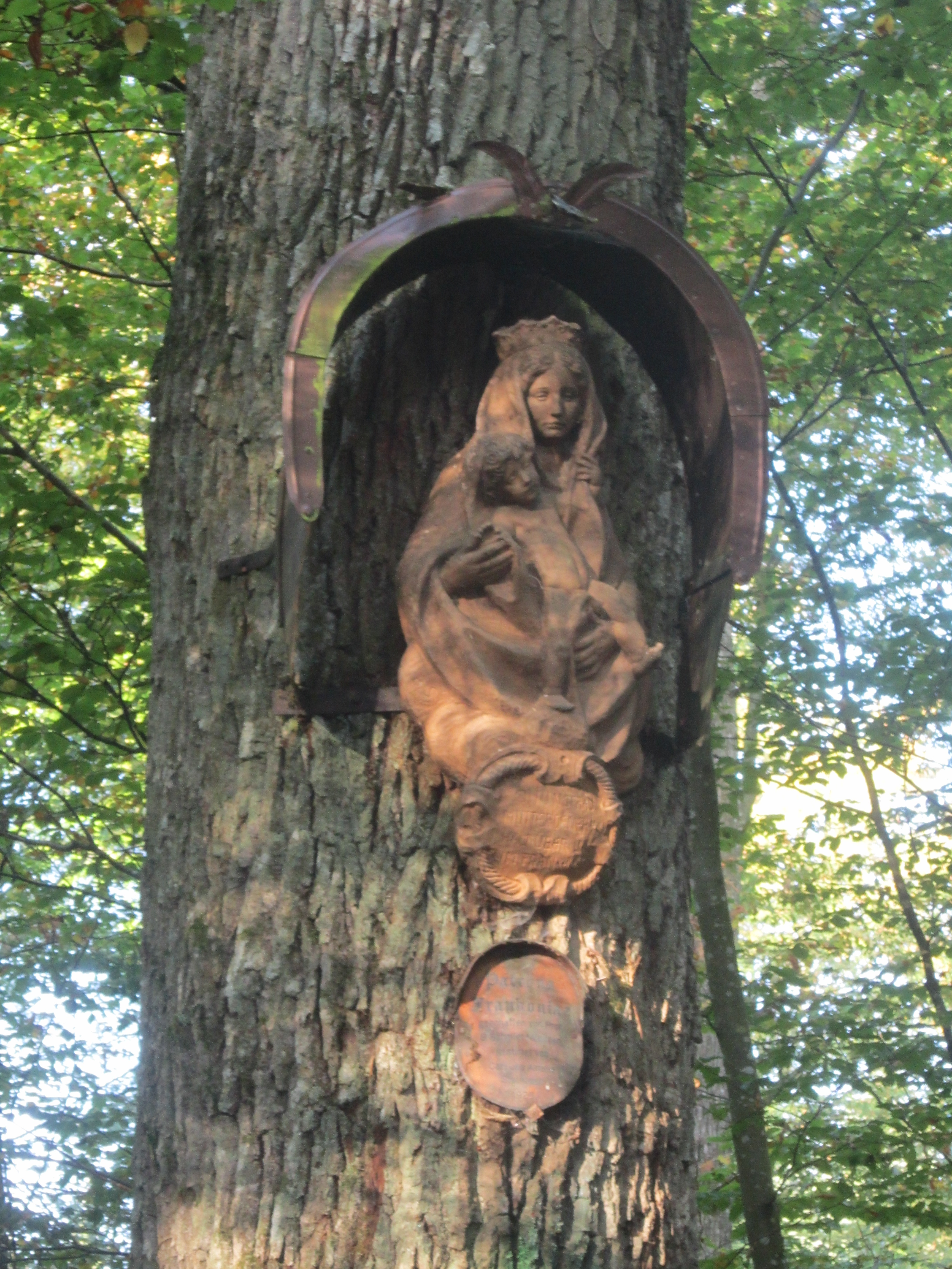 The "Steinbach-Madonna", a Holy Mary Sculpture in the urban forest of the German spa town of Bad Kissingen in Lower Franconia (Bavaria).